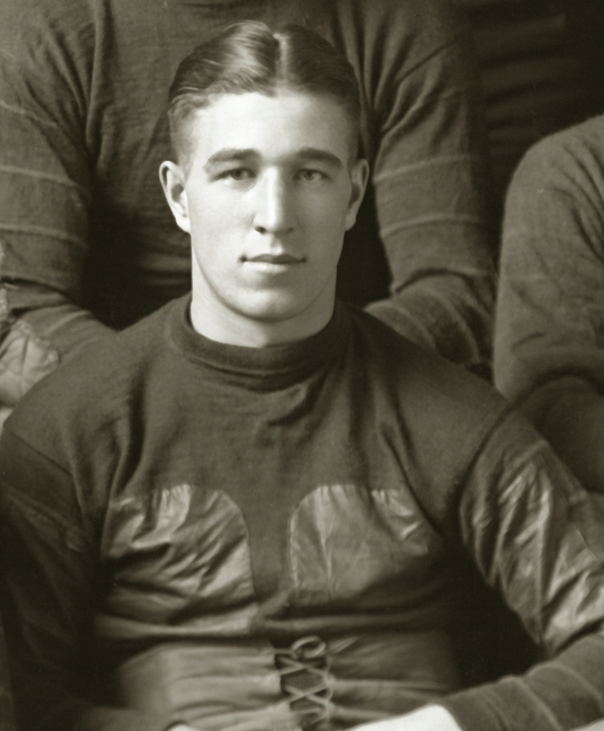 Photograph of Arthur Karpus